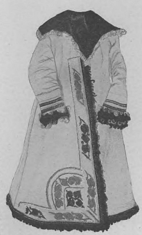 Kozhuch